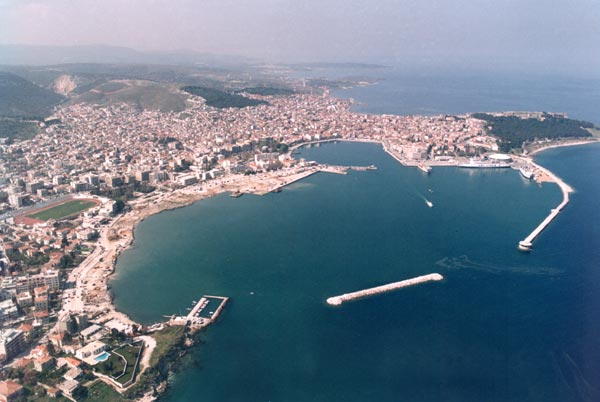 Aerial view of Mytilene in the island of Lesbos, Greece.